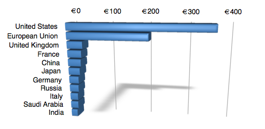 A graph showing statistics from the Stockholm International Peace Research Institute on the top ten military budgets (+ the European Union) in 2006. Figures converted from US dollars to euros in constant prices and exchange rates in 2005.